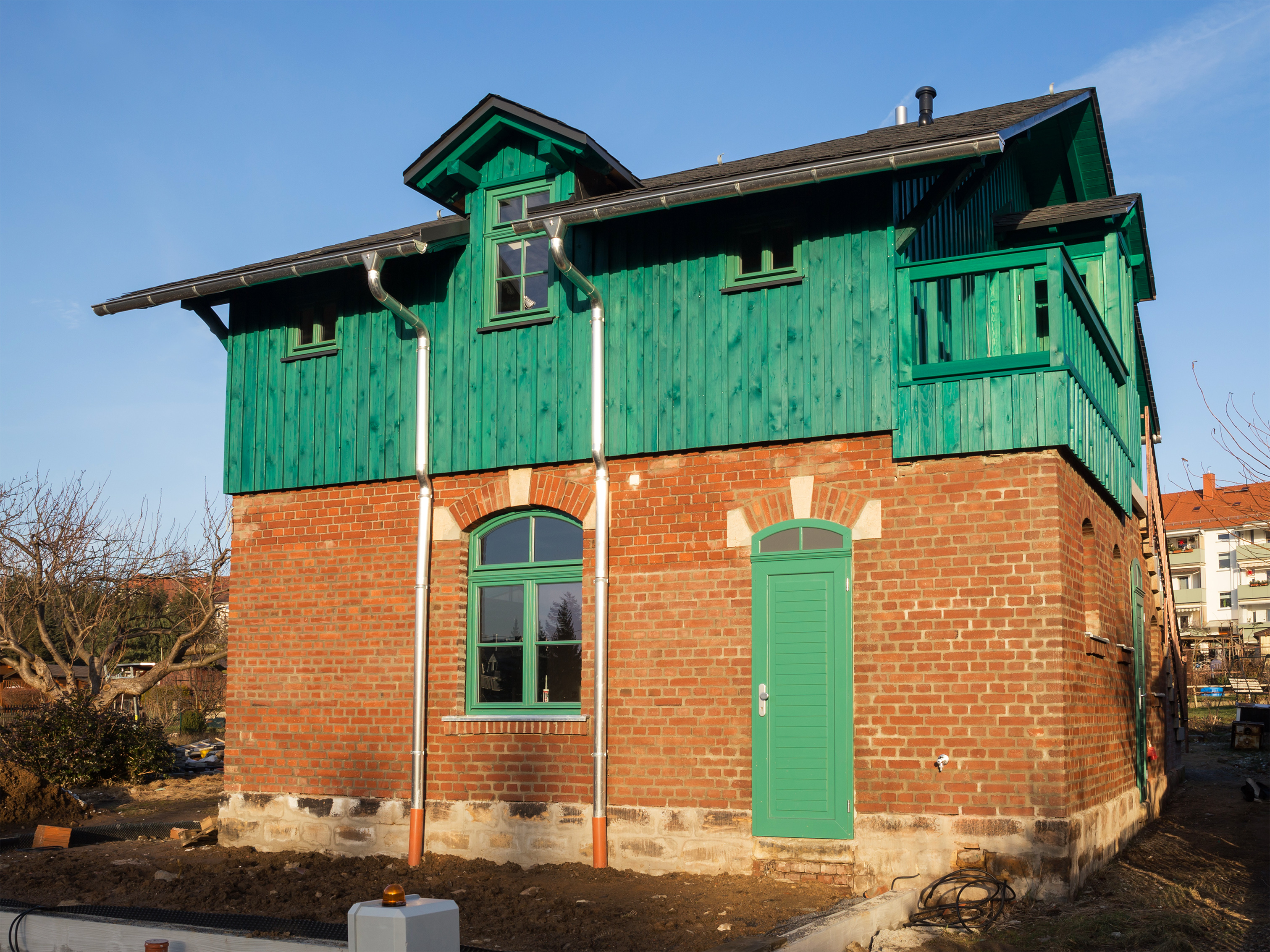 Freiberg, Saxony, Silberhofstraße 11a, cultural heritage monument